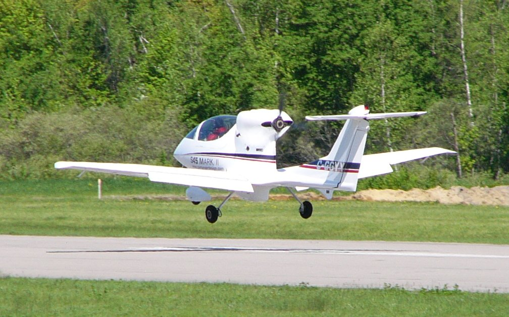 The prototype Partenair S-45 Mystere at the Lachute Fly-in